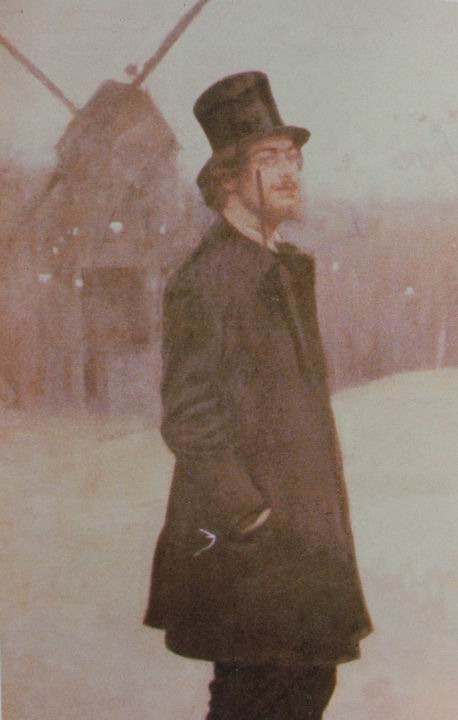 Ramon Casas, "Moulin de la Galette",1891 (detail) - Erik Satie